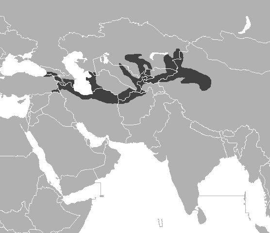 Panthera tigris virgata living space in 1900. Based on Image:Tiger distribution.gif